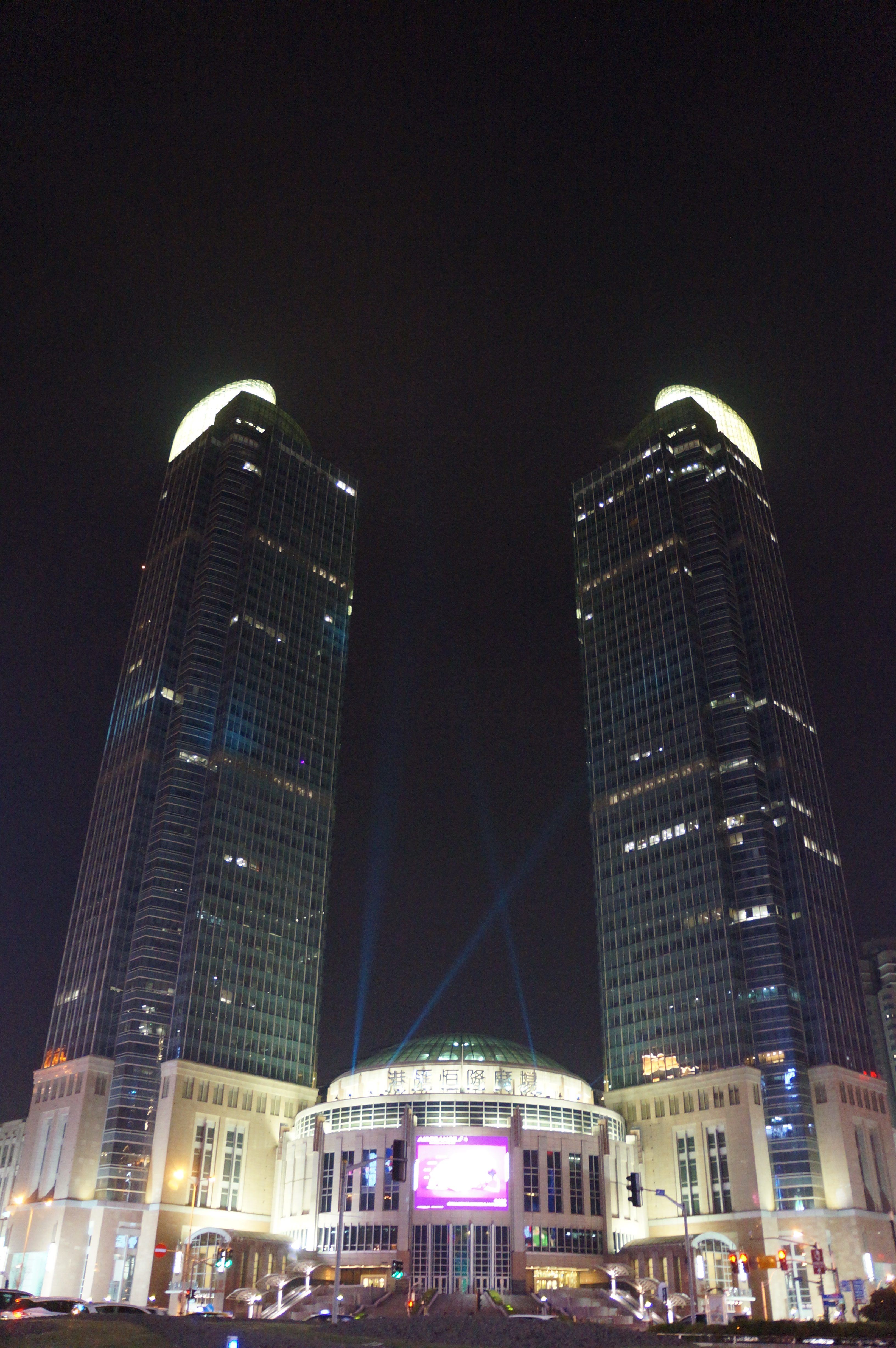 201609 Hang Lung the Grand Gateway Shanghai